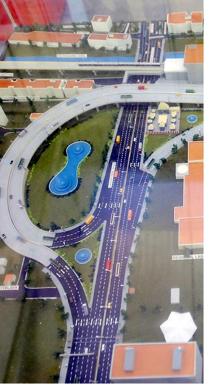 Madhya Kailash Trumpet Interchange